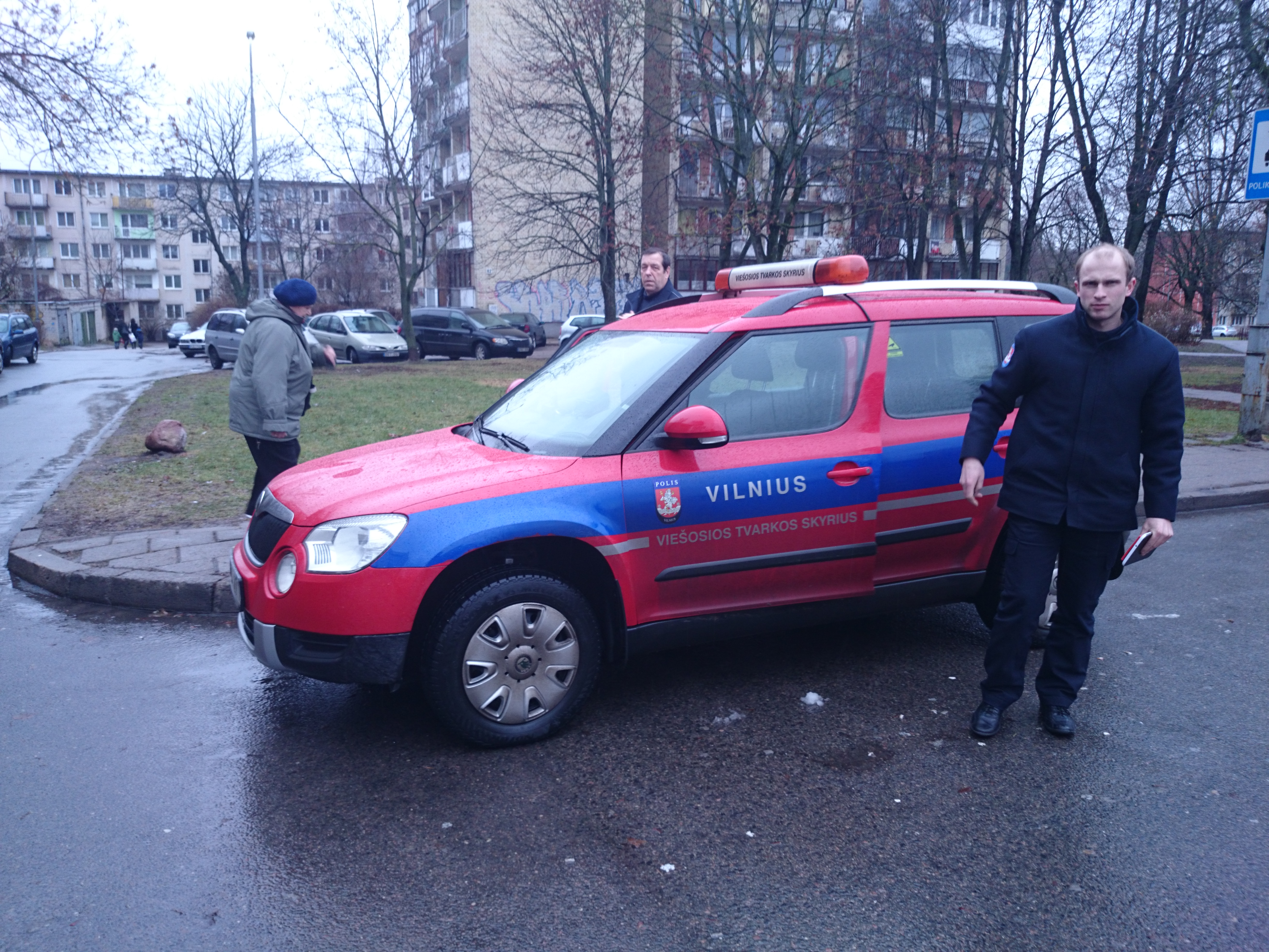 public order in LT